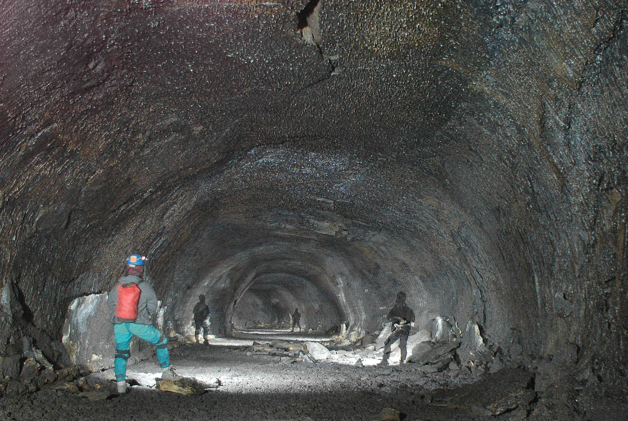 Multiple Exposure. Looking down the axis of a classic lava tube passage in Lava Beds National Monument, California, USA